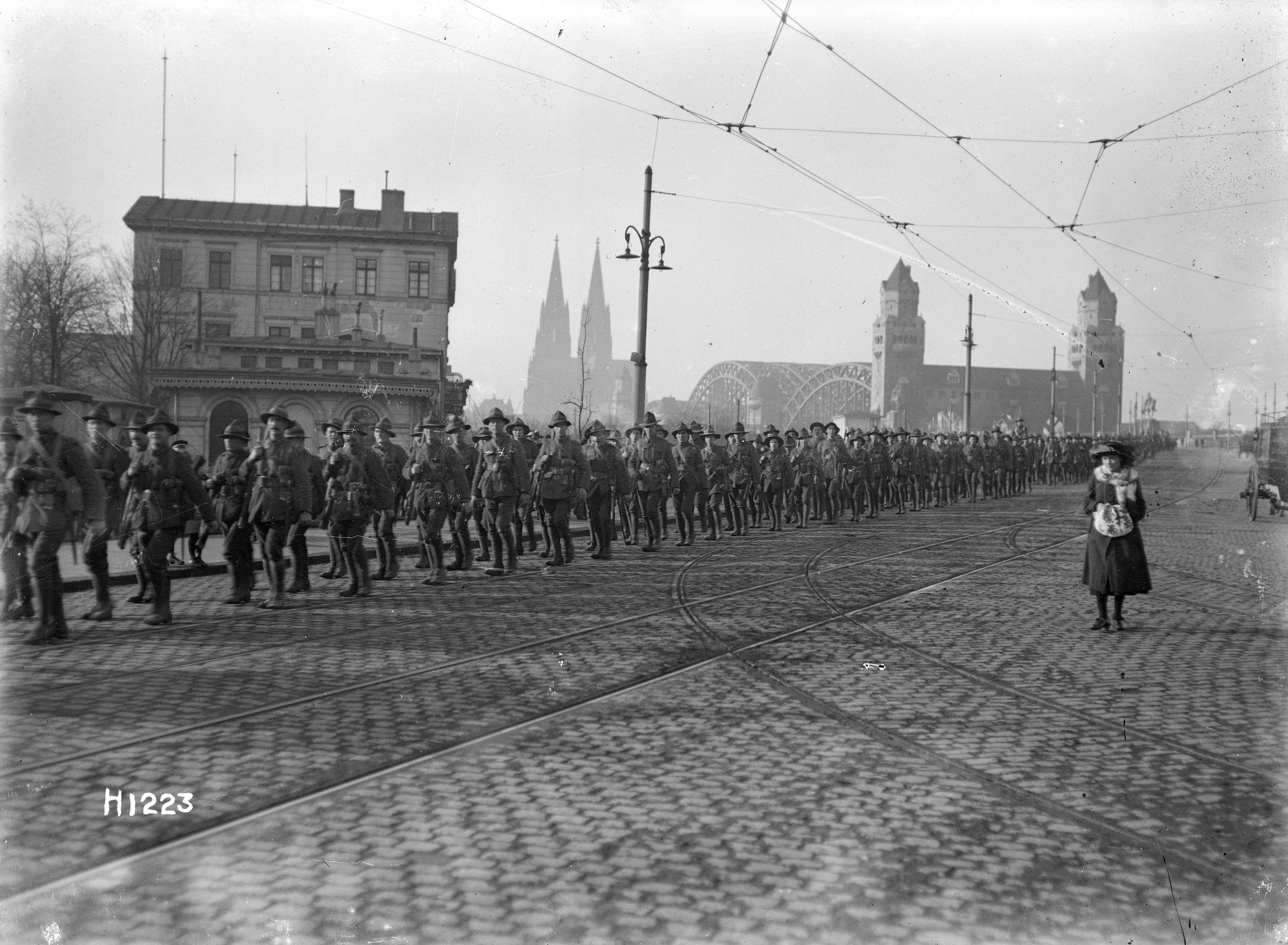 New Zealand World War I soldiers marching over the Hohenzollern Bridge in Cologne, Germany, circa 1918. Photograph taken by Henry Armytage Sanders. Inscriptions: Inscribed - Photographer's title on negative -bottom left: H1223. Quantity: 1 b&w original negative(s). Physical Description: Dry plate glass negative 4 x 5 inches New Zealand World War I soldiers marching over the Hohenzollern Bridge, Cologne, Germany. Royal New Zealand Returned and Services' Association :New Zealand official negatives, World War 1914-1918. Ref: 1/2-013770-G. Alexander Turnbull Library, Wellington, New Zealand.